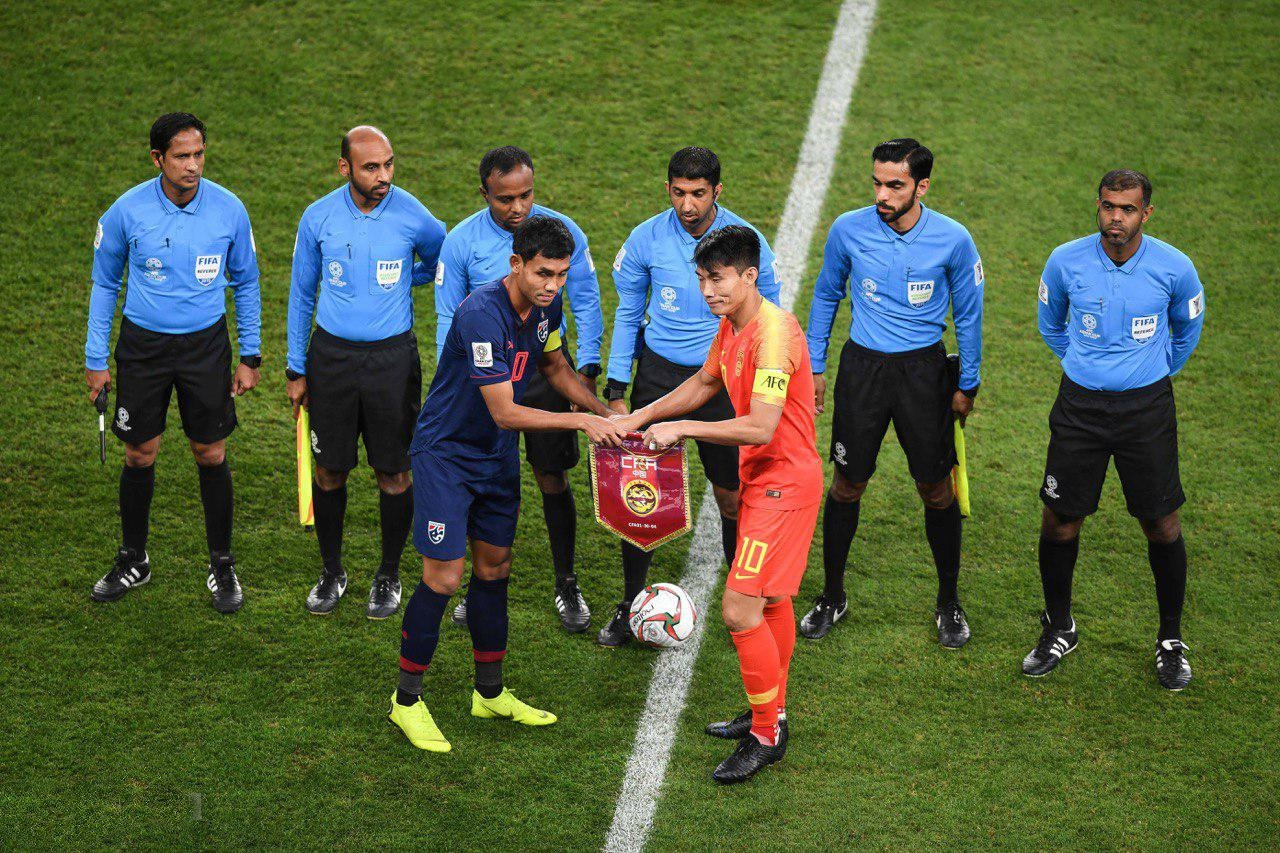 Thailand & China PR Round of 16, 2019 AFC Asian Cup